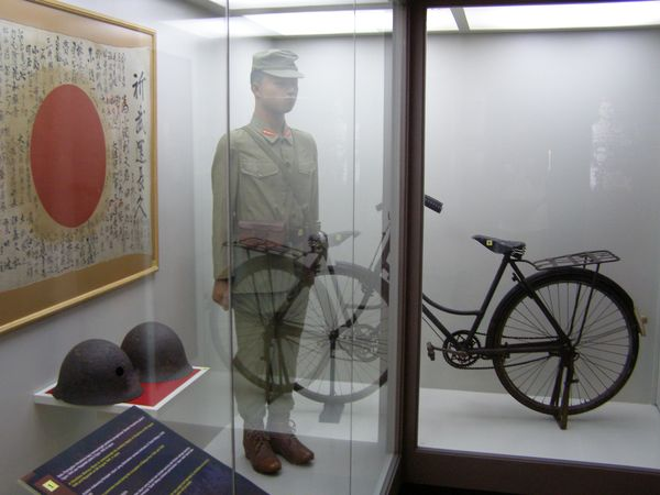 Battle of malaya and the Japanese bicycle - JapaneseBicycle001.jpg